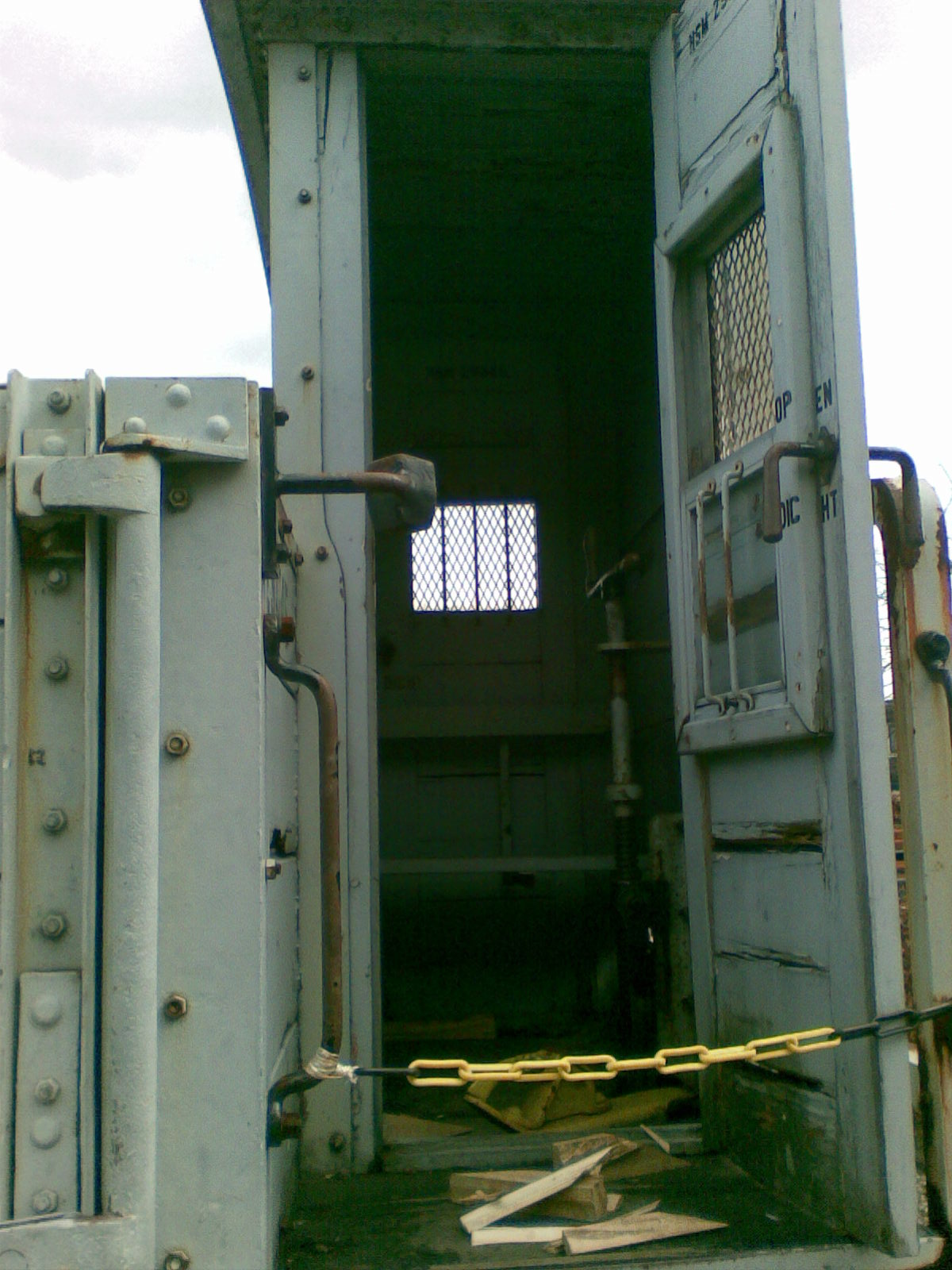 Detail of a brakeman's cabin on freight car in the Ducht Railway museum, Utrecht